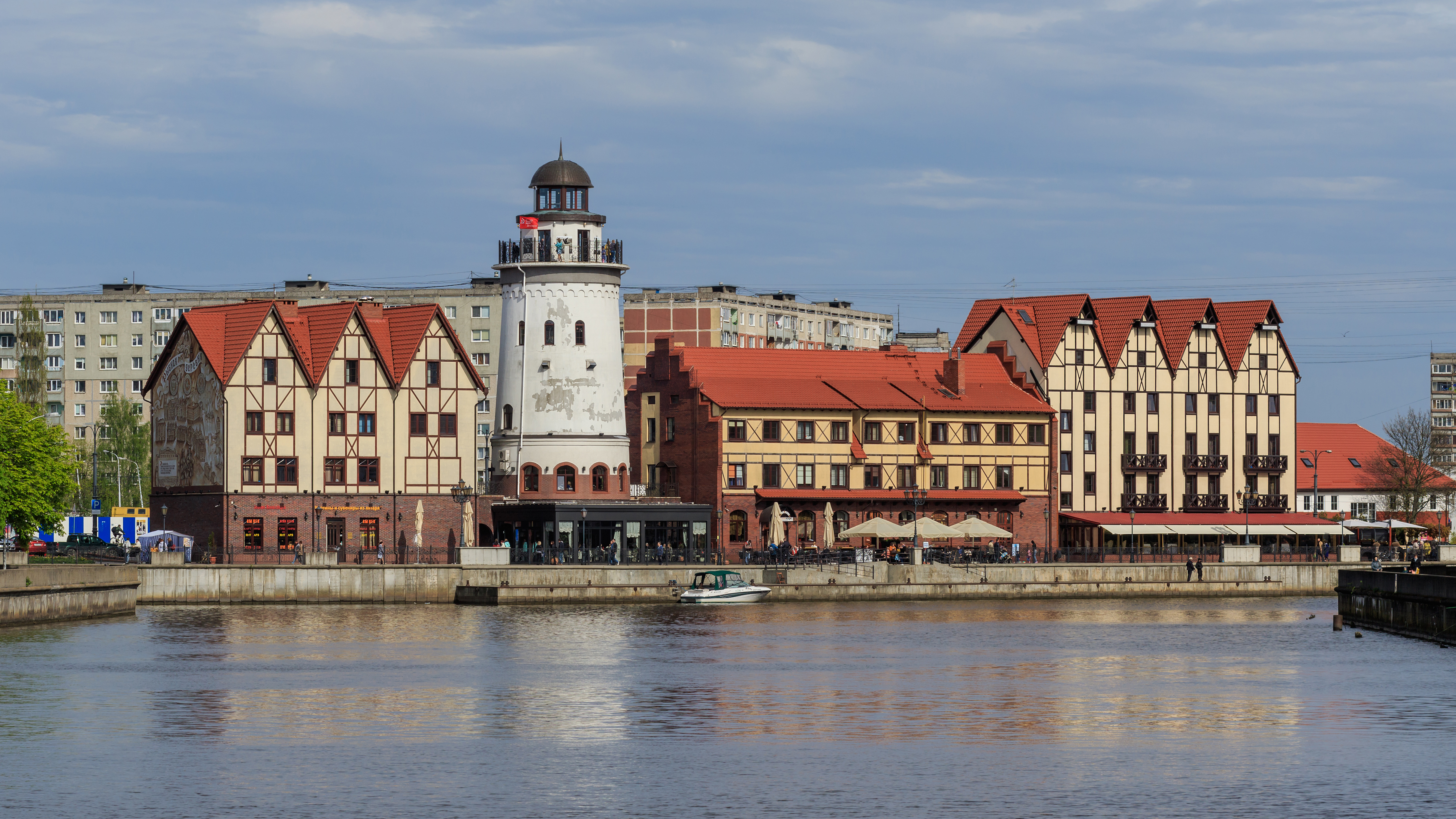 Fishery Village (Prussian-style replica) in Kaliningrad formerly Königsberg, Kaliningrad Oblast (Russia).